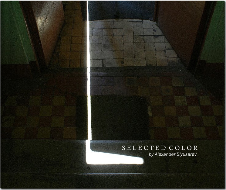 Cover of Alexander Slysarev's book "Selected Color"